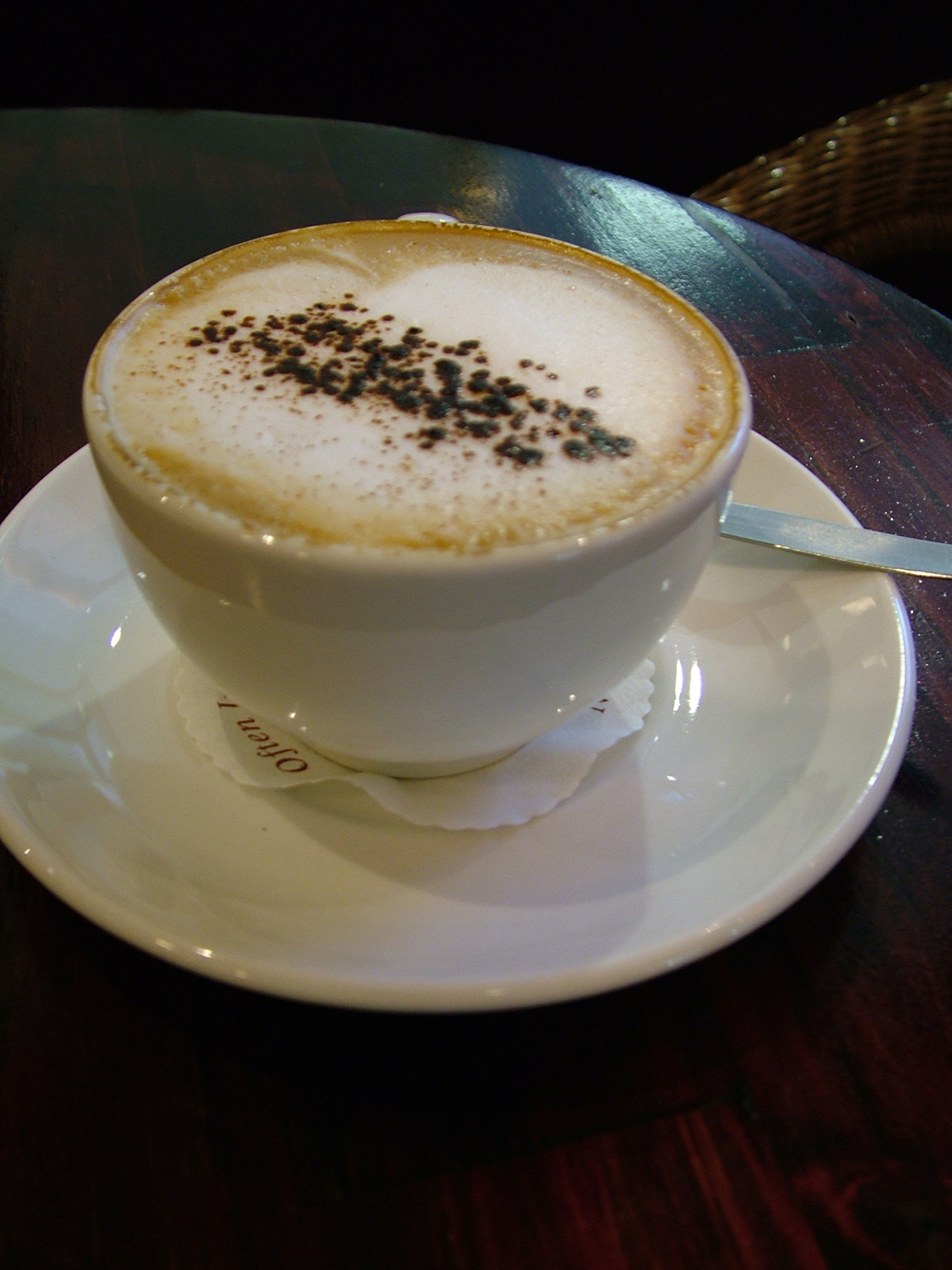 Cup of Coffee with Spices